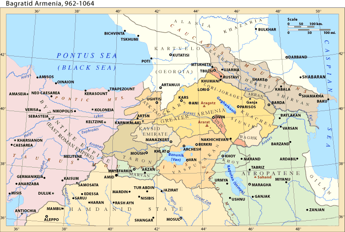 Bagratid Armenia, 962-1064